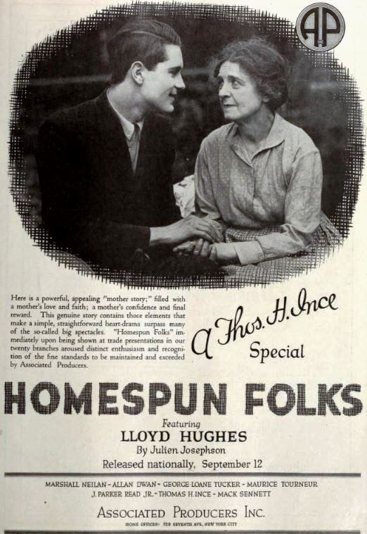 Advertisement for the American drama film Homespun Folks (1920) with Lloyd Hughes and Lydia Knott, on page 11 of the September 18, 1920 Exhibitors Herald.